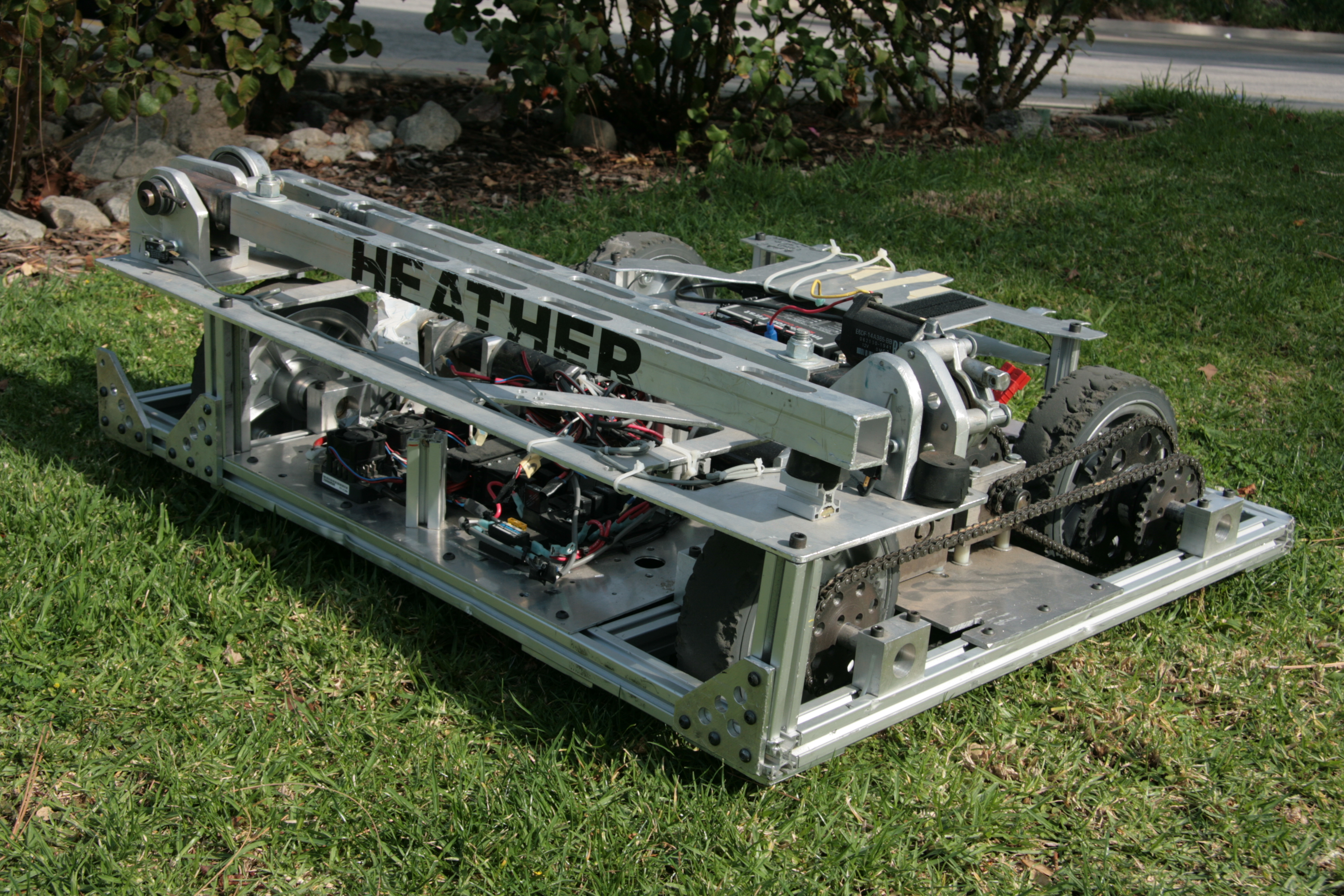 This is a robot created by Clark Magnet High School students in 2003 for the FIRST Robotics Competition.